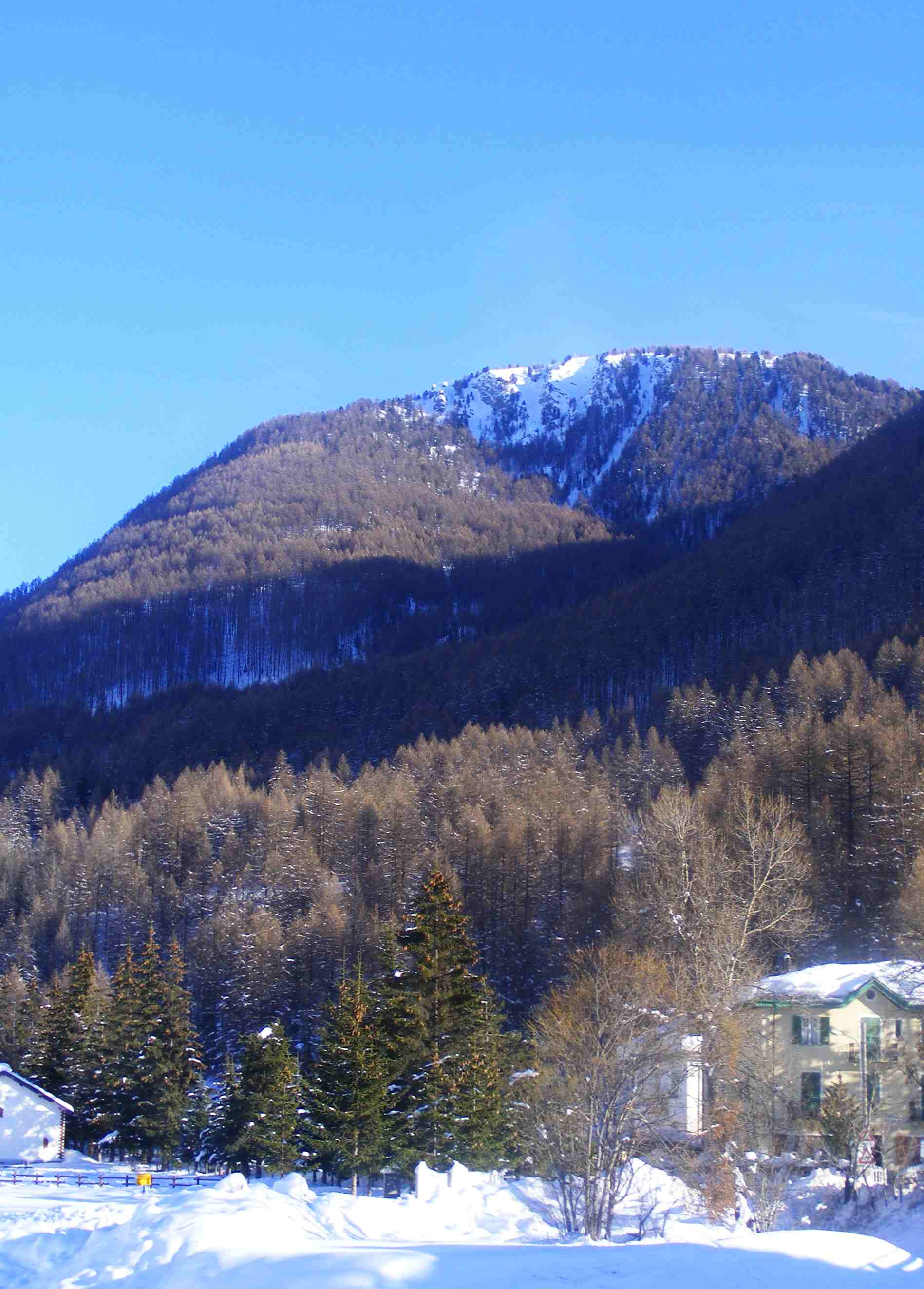 Cima del Bosco (TO, Italy): northern slope as seen from Bousson.